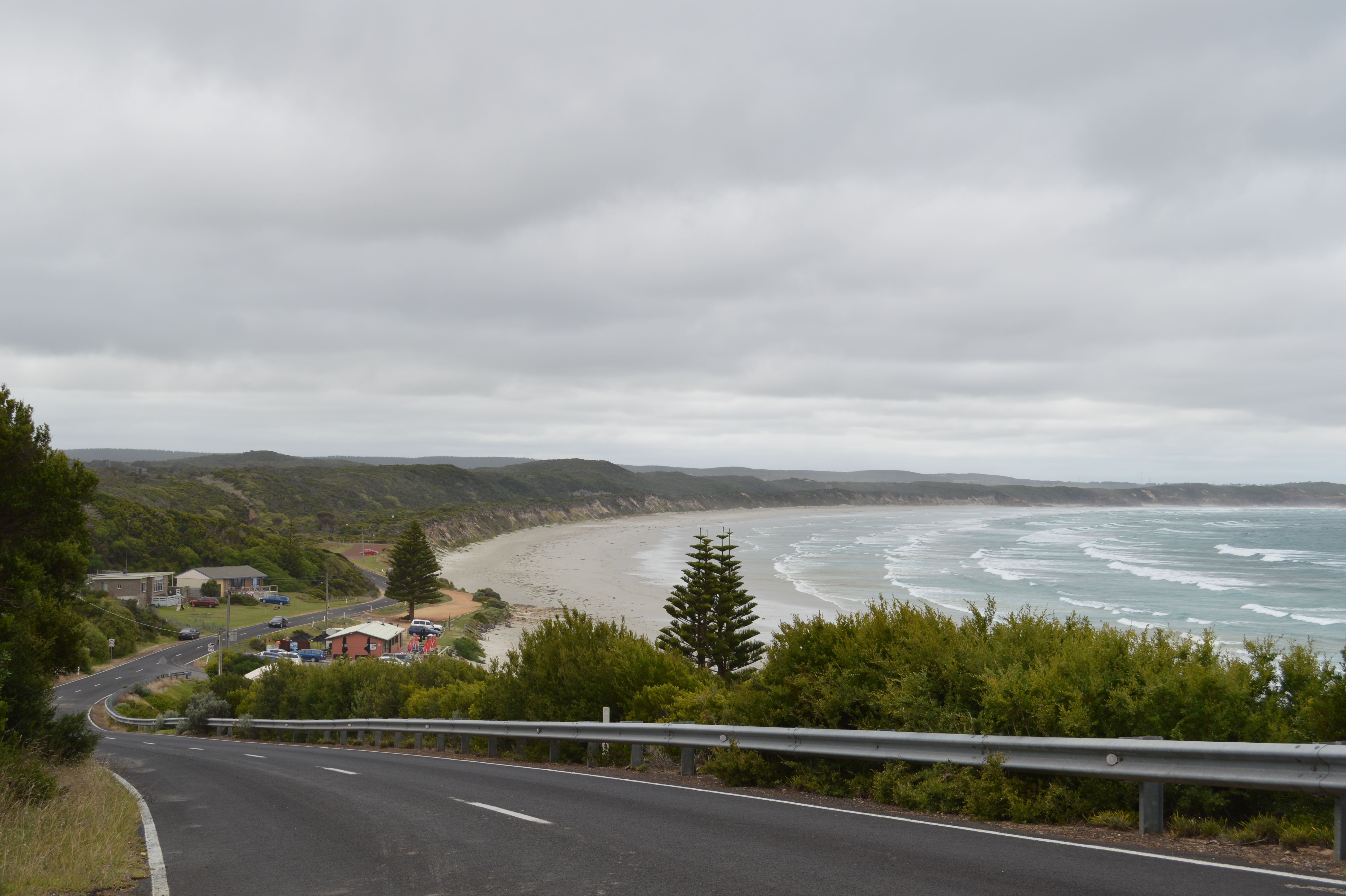 The coastline at Cape Bridgewater, Victoria